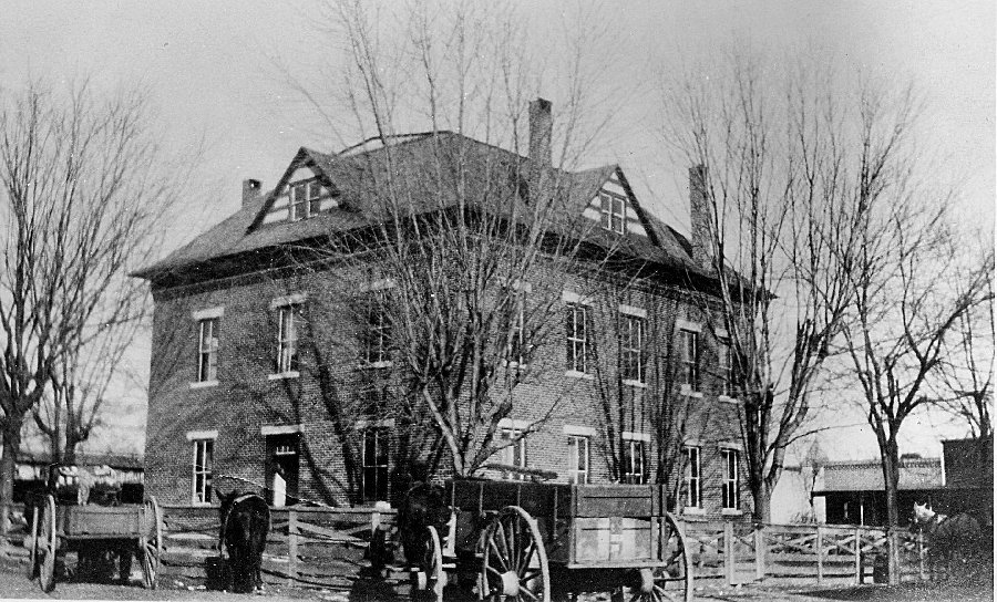 The Old McDonald County Courthouse after the 1905 addition, but taking prior to 1920.